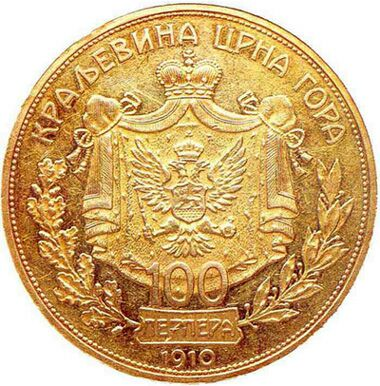 Translation: Kingdom of Montenegro 100 Perpers 1910